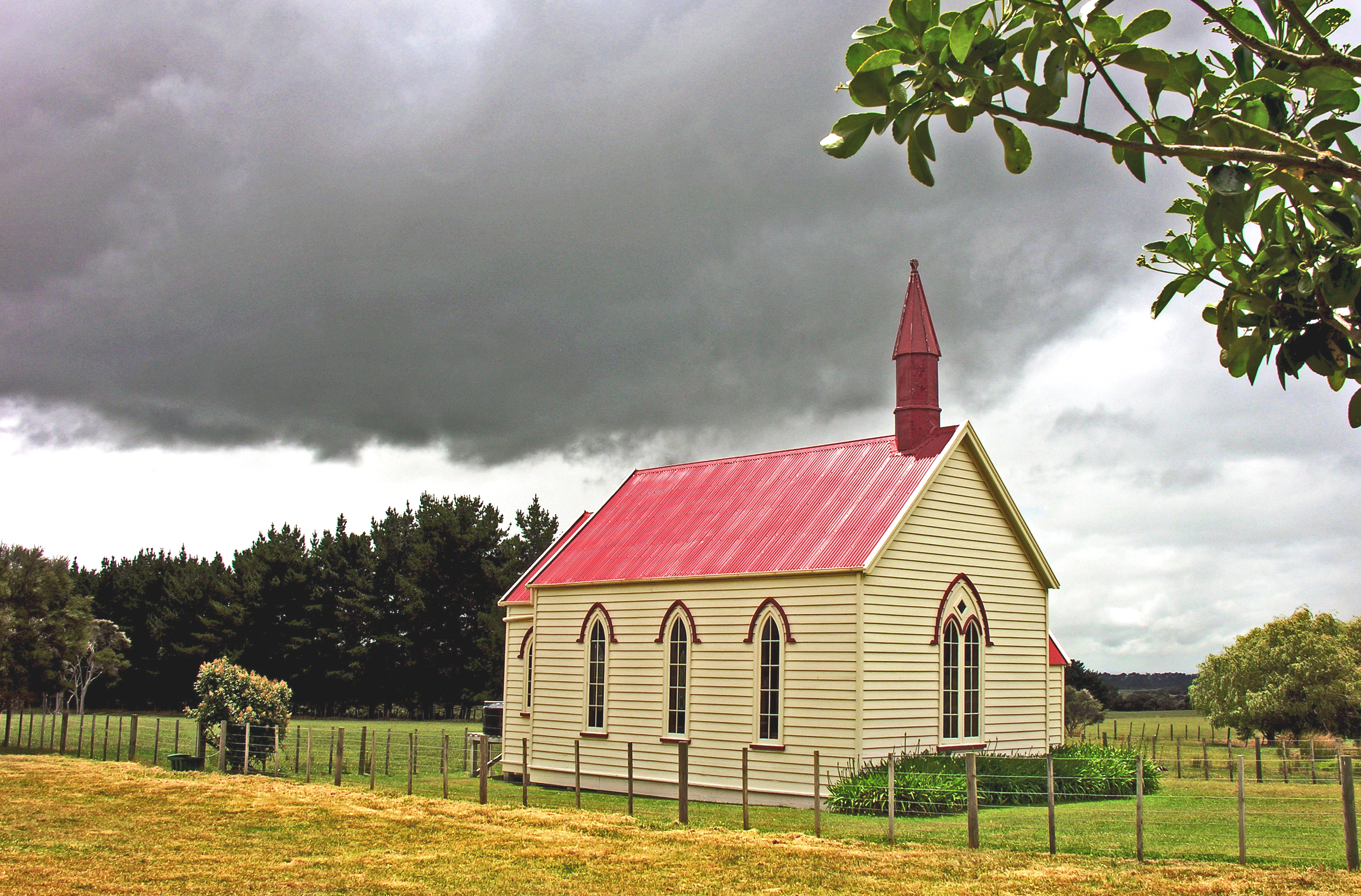 This church was built in 1875 and is a typical example of rural New Zealand churches of its era. It is still in use and beautifully preserved and maintained outside and in. This part of the North Island was originally settled by Europeans who purchased the land from local Maori and opened up large sheep runs. This was achieved peacefully because the local iwi believed that European settlement would offer them protections against the aggressions of the Taranaki tribes, and because some important tribal chiefs were converted to Christianity by William Colenso. This church was built as a chapel for a single farm and its workers. That is why it is not in a village. This history reminds me of many estate churches in England - for example that at Parham in West Sussex where my son got married. We couldn't get inside because it was locked, but the interior woodwork is a must for a return visit!